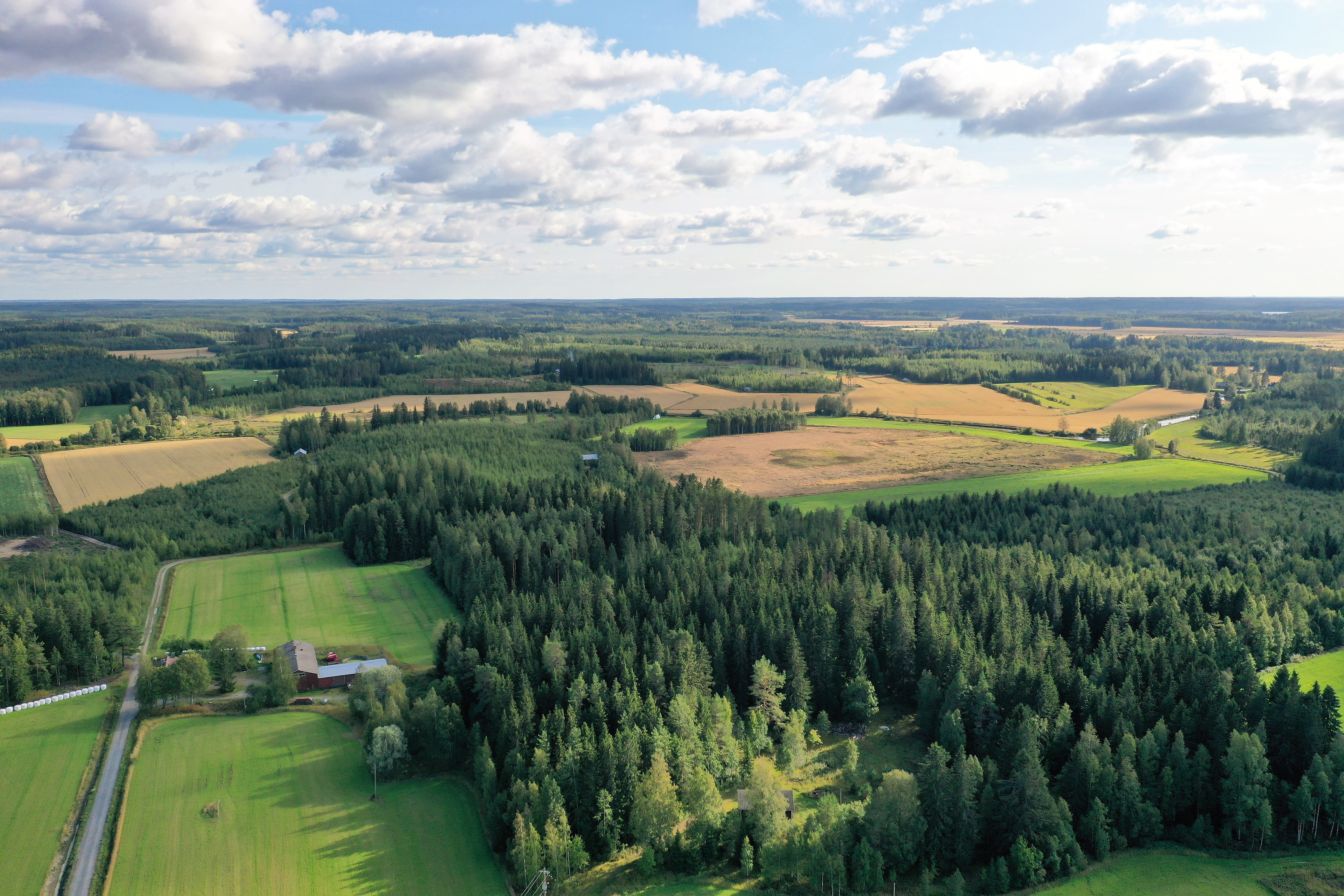 Kiikoistenmaa village's fields and forests in Sastamala, Finland